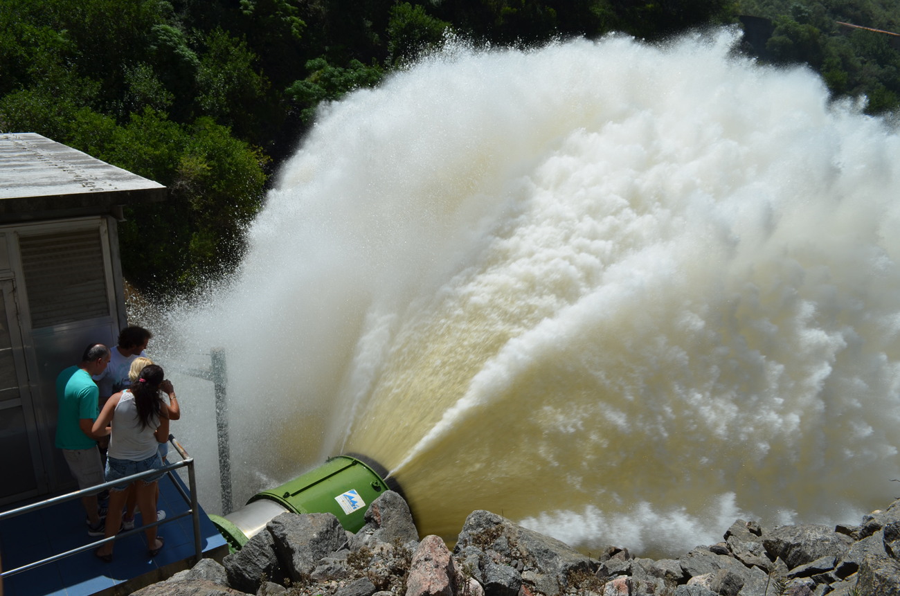 San Roque Dam, Cordoba Argentina